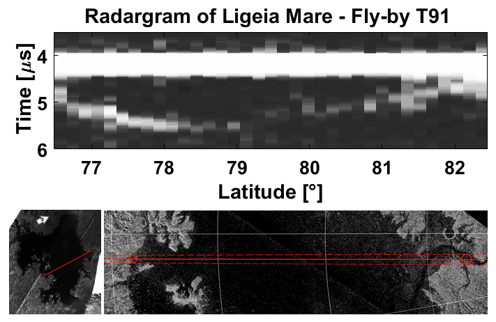 Radargram acquired by the Cassini RADAR altimeter showing the surface and seafloor of Ligeia Mare along the transect highlined by the red line. In each column is shown the received power as function of time.